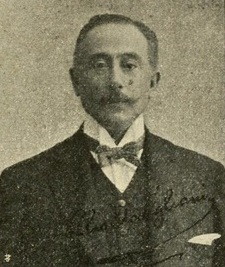 Portrait of the Italian anthropologist Elio Modigliani. In "Illustri italiani contemporanei" by Onorato Roux (Firenze, 1908)